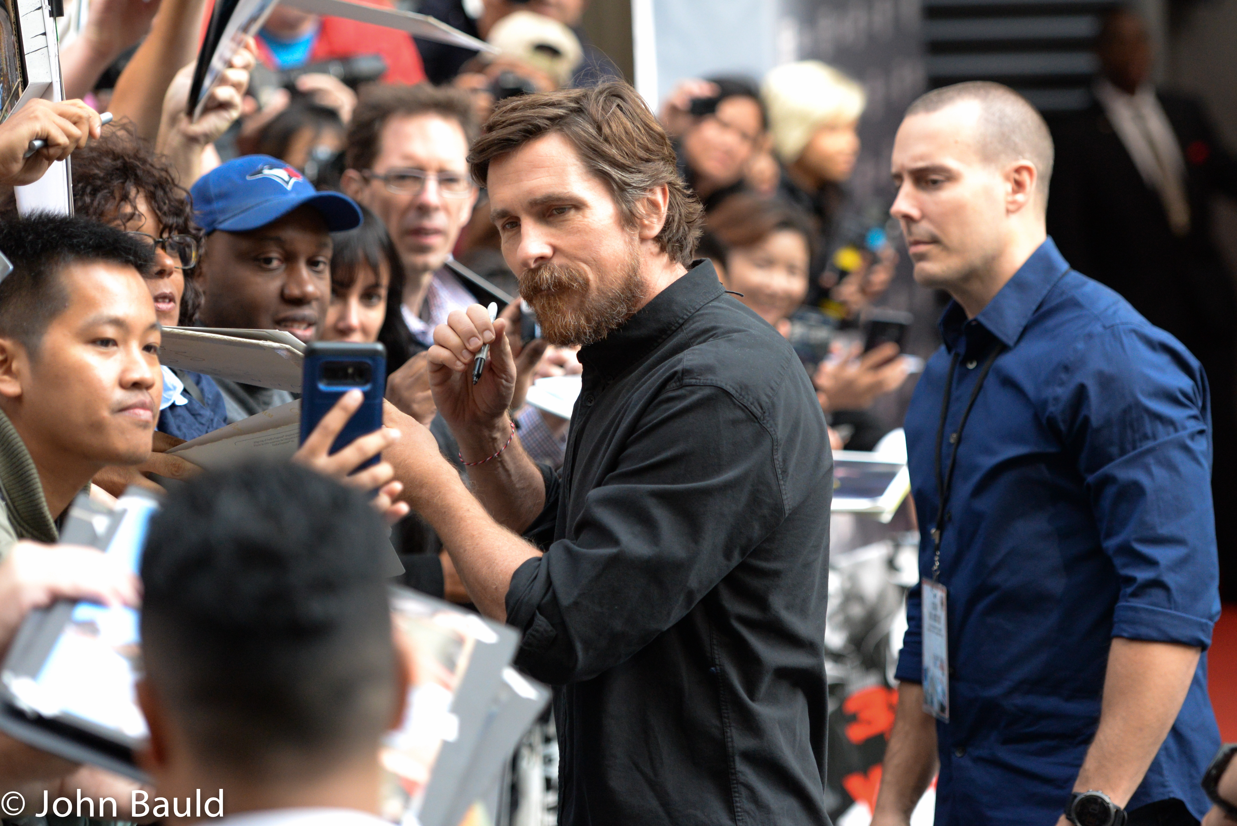 TIFF 2019 christian bale